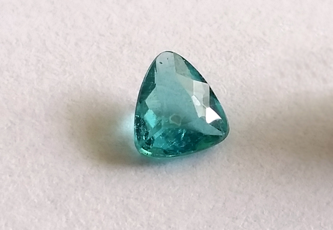 Paraiba Tourmaline, 0.36ct, Paraiba Brazil